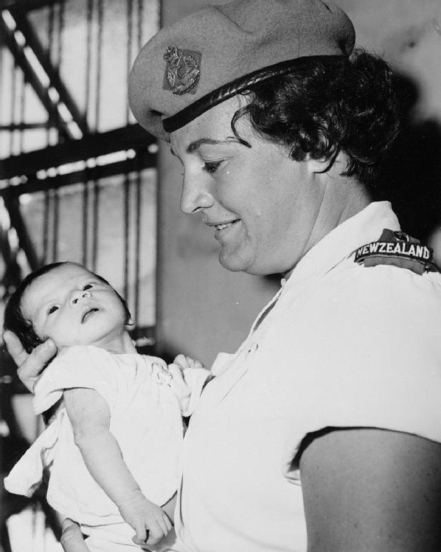 Australian and New Zealand Forces in Vietnam 1962 - 1972 Charge Sister Pam Miley, a Royal New Zealand Nursing Corps Sister makes friends with a new born Vietnamese baby during a visit to a orphanage in Vung Tau, Headquarters of the 1st Australian Logistic Support Group, 1971.